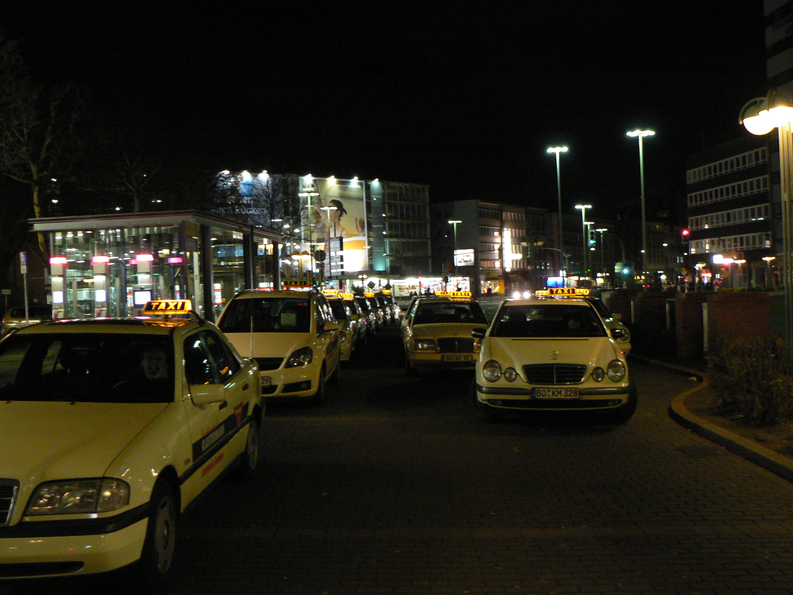 taxis waiting for customers at railway station Bochum